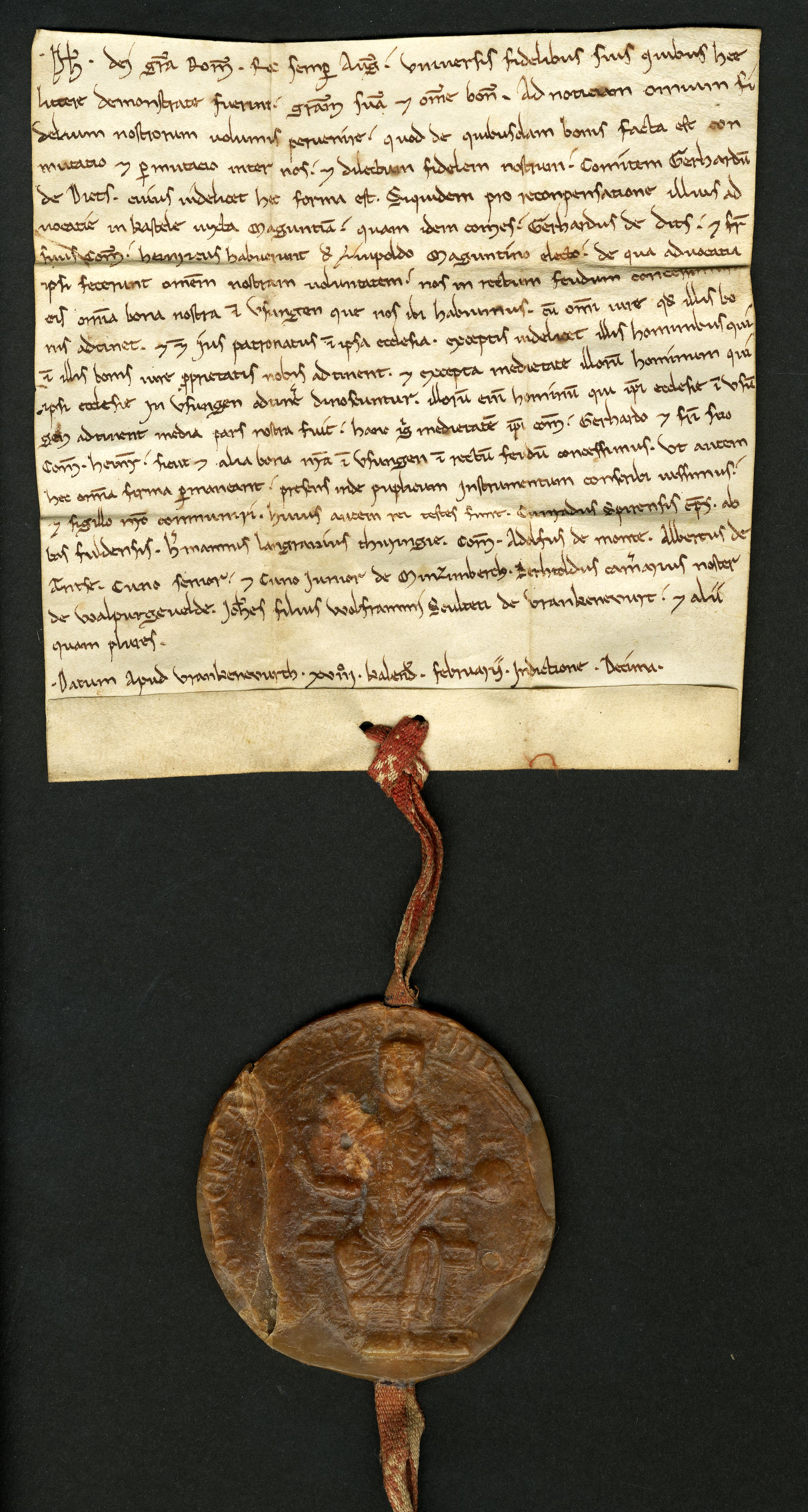 Deed ("concambium") of Philip of Swabia, January 15, 1207